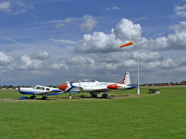 Aircraft at North Weald Airfield, Essex